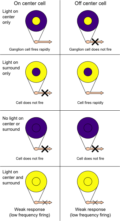 Rasterized version of Image:Receptive_field.svg (text not rendered correctly on Wikimedia).